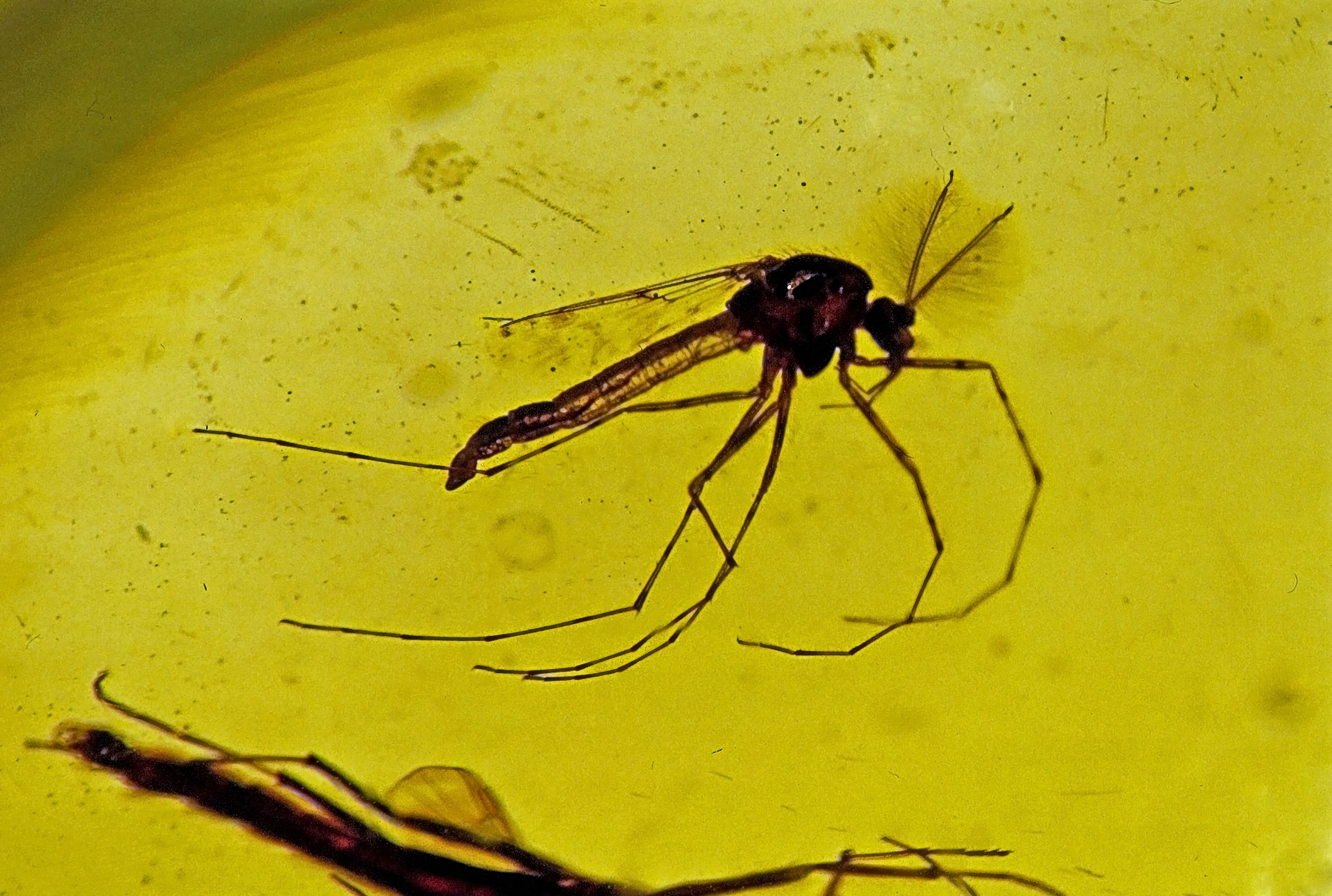 Diptera, Nematocera, Chironomidae male - 3 mm : Baltic sea, Poland - 40 to 50 MY